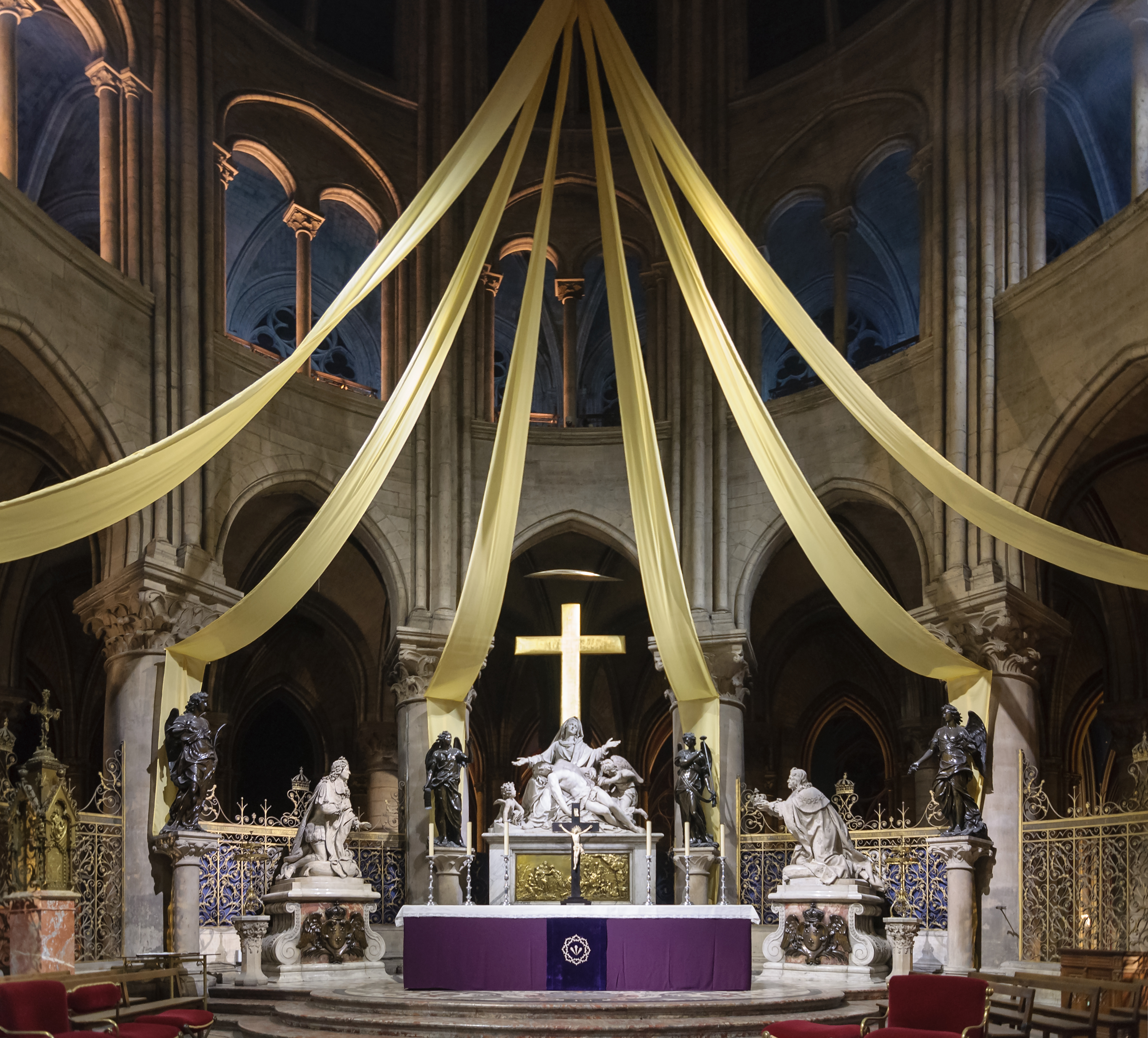 High altar of Notre Dame de Paris.Descent from the Cross, sculpture by Nicolas Coustou with a relief by François Girardon, surrounded by the kneeling statues of Louis XIII on the right (by Guillaume Coustou) and of Louis XIV on the left (Antoine Coysevox).